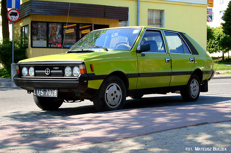 FSO Polonez MR'78 in Świdnik.